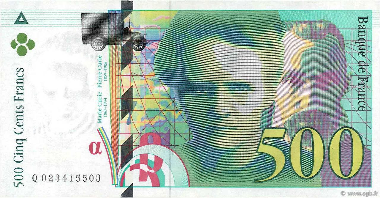 500 francs